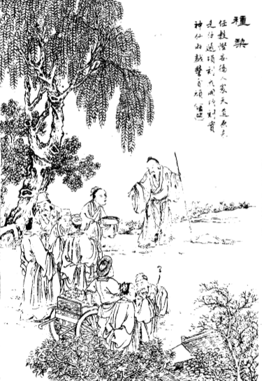 19th-century illustration of a scene from the short story "Growing Pears" (Zhongli) collected in Strange Tales from a Chinese Studio (1740).